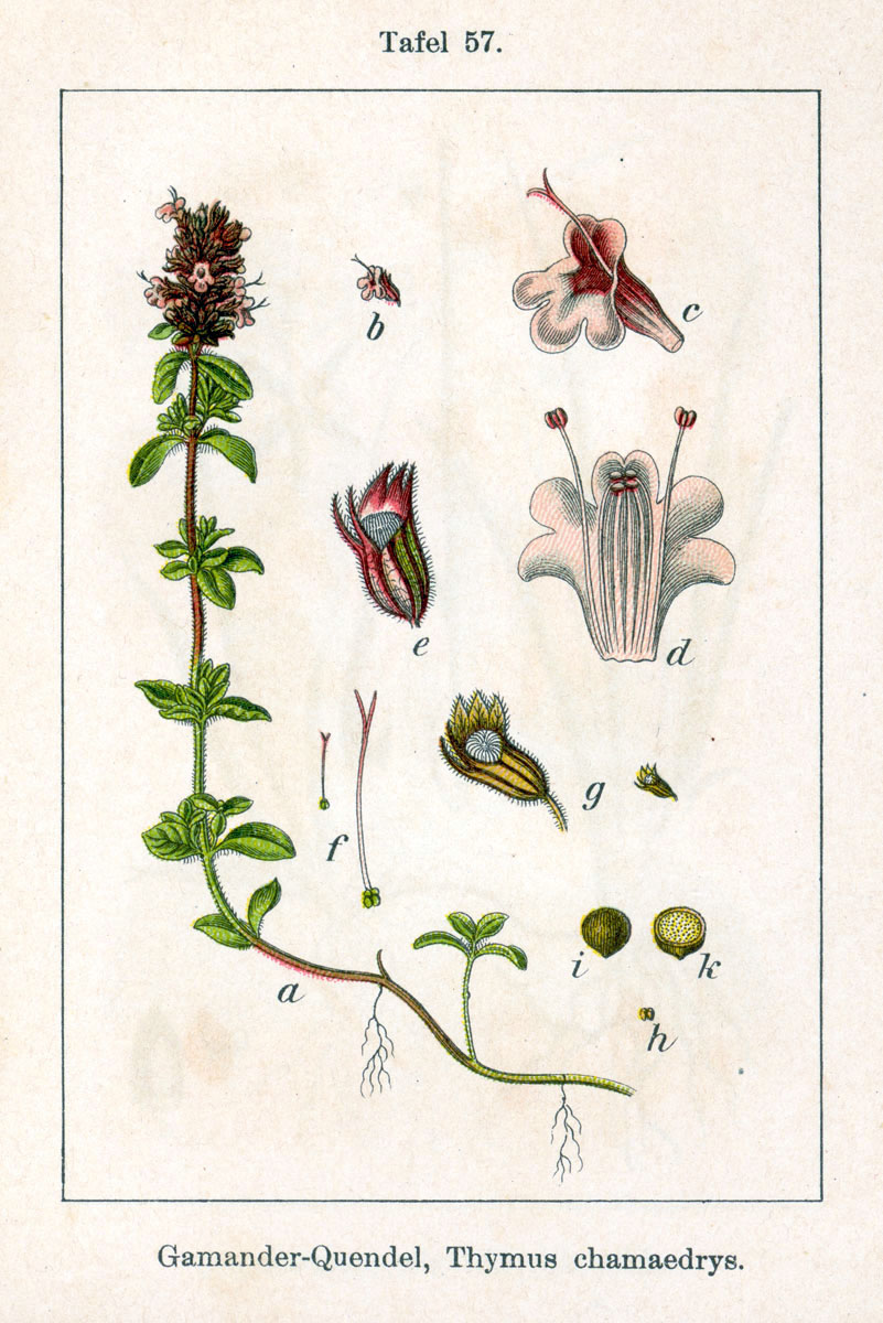 Thymus pulegioides subsp. chamaedrys (Fr.) Litard., syn. Thymus serpyllum subsp. effusus (Host) Lyka, Thymus chamaedrys Fr. Original Description Gamander-Quendel, Thymus chamaedrys